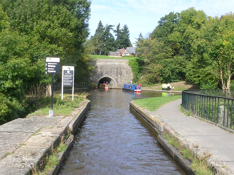 Chirk tunnel viewed from Chirk aqueduct. Trimmed and re-sized in Photoshop